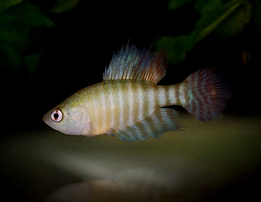 Simpsonichthys brunoi